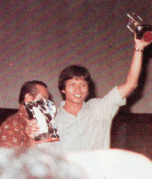 Norman Benny receiving Citra for Best Editing for Bukan Istri Pilihan at the 1982 Indonesian Film Festival in Jakarta